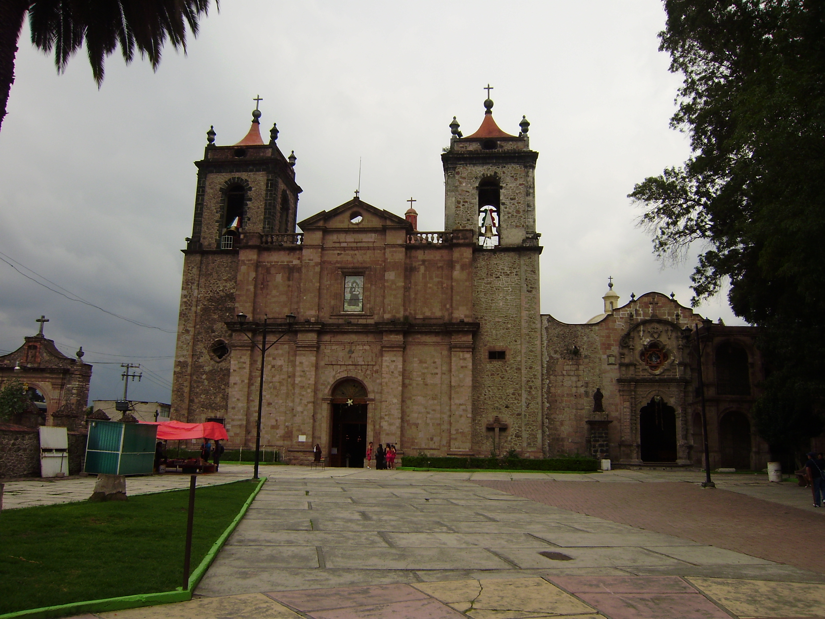 Church of Saint Anthony of Padua, Tultitlán, México